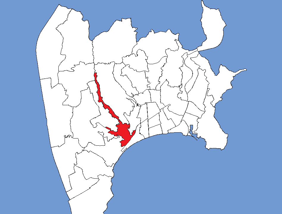 Location of the neighbourhood Madeleine in Nice